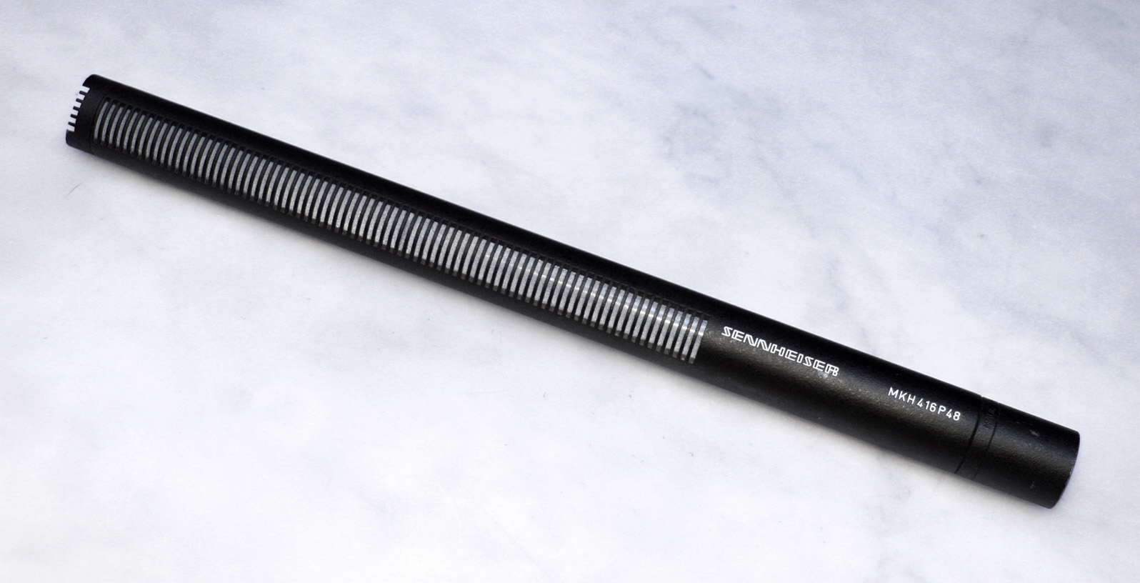 Sennheiser MKH 416 directional microphone